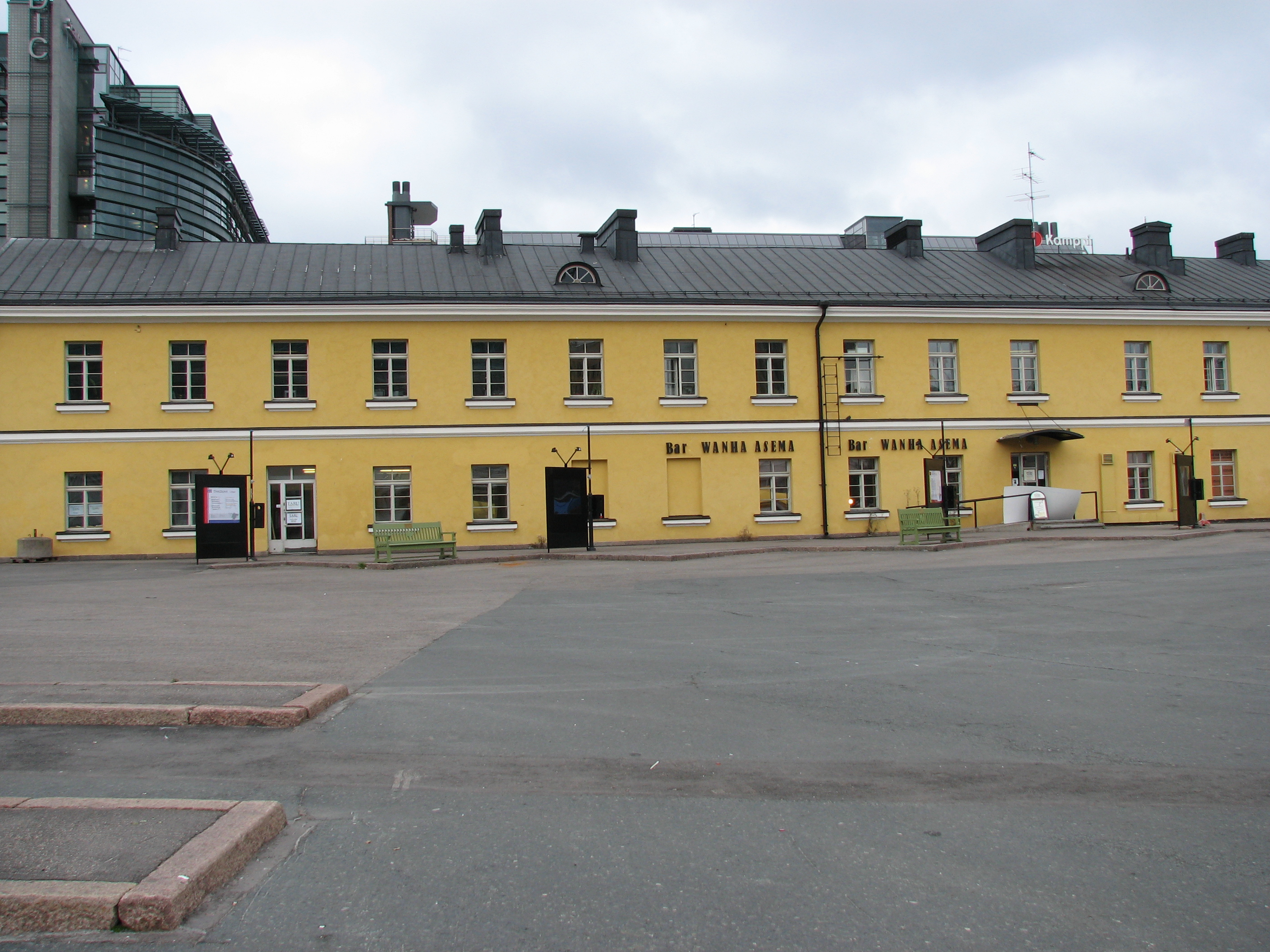 The old bus station at Kamppi, Helsinki. This is the only surviving building of the original Russian army barracks built in the 19th century. It has been superseded by the Kamppi Centre and now serves as a cultural centre.